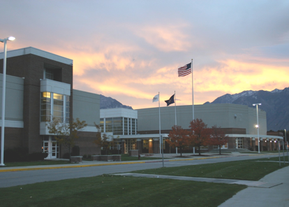 Picture of the New and Current Jordan High School Building